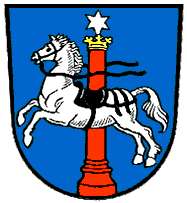 Official coat of arms of the German city of Wolfenbüttel. See also Category:Coat of arms images